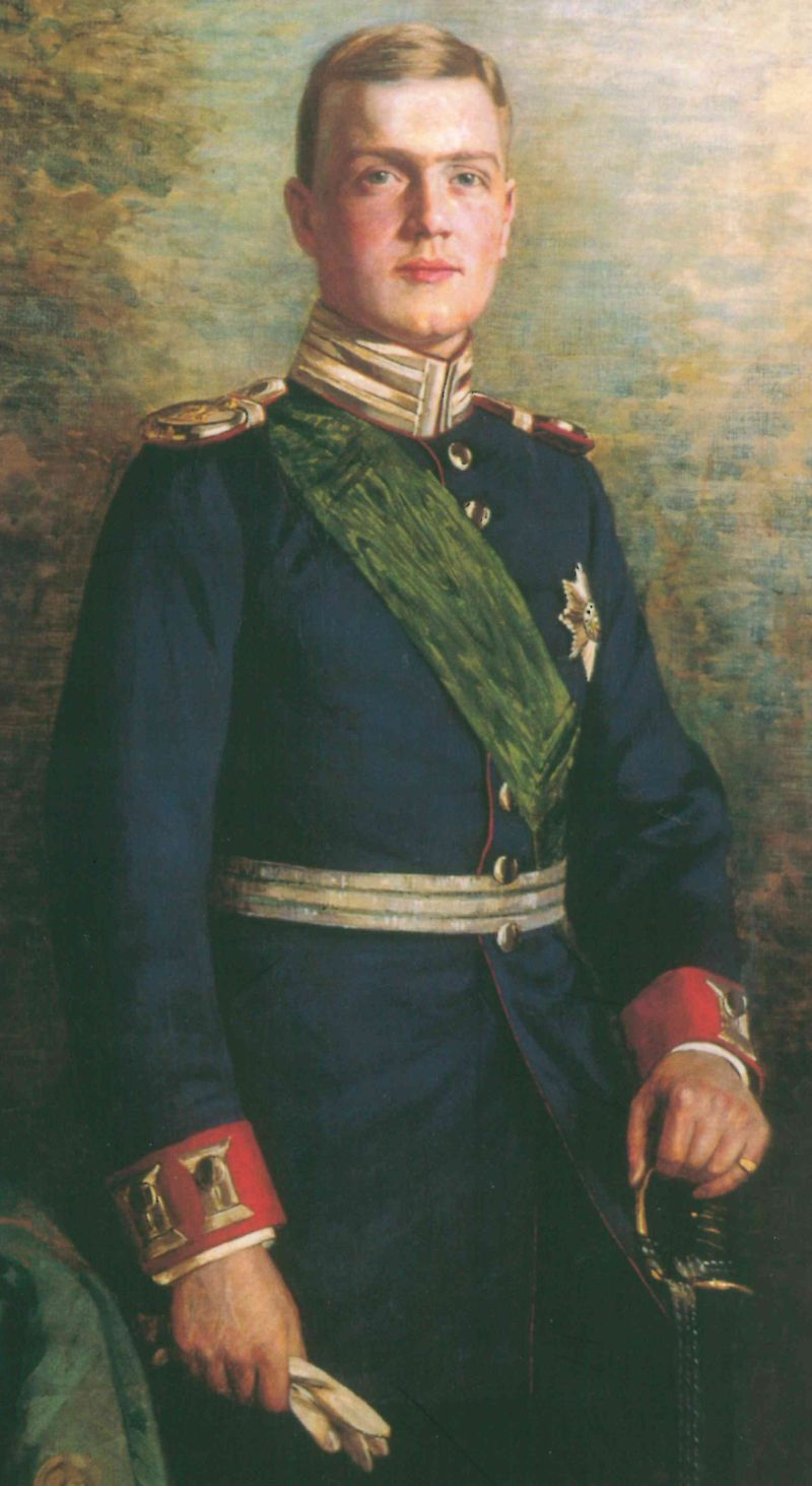 Portrait of Georg, Crown Prince of Saxony (1893-1943)